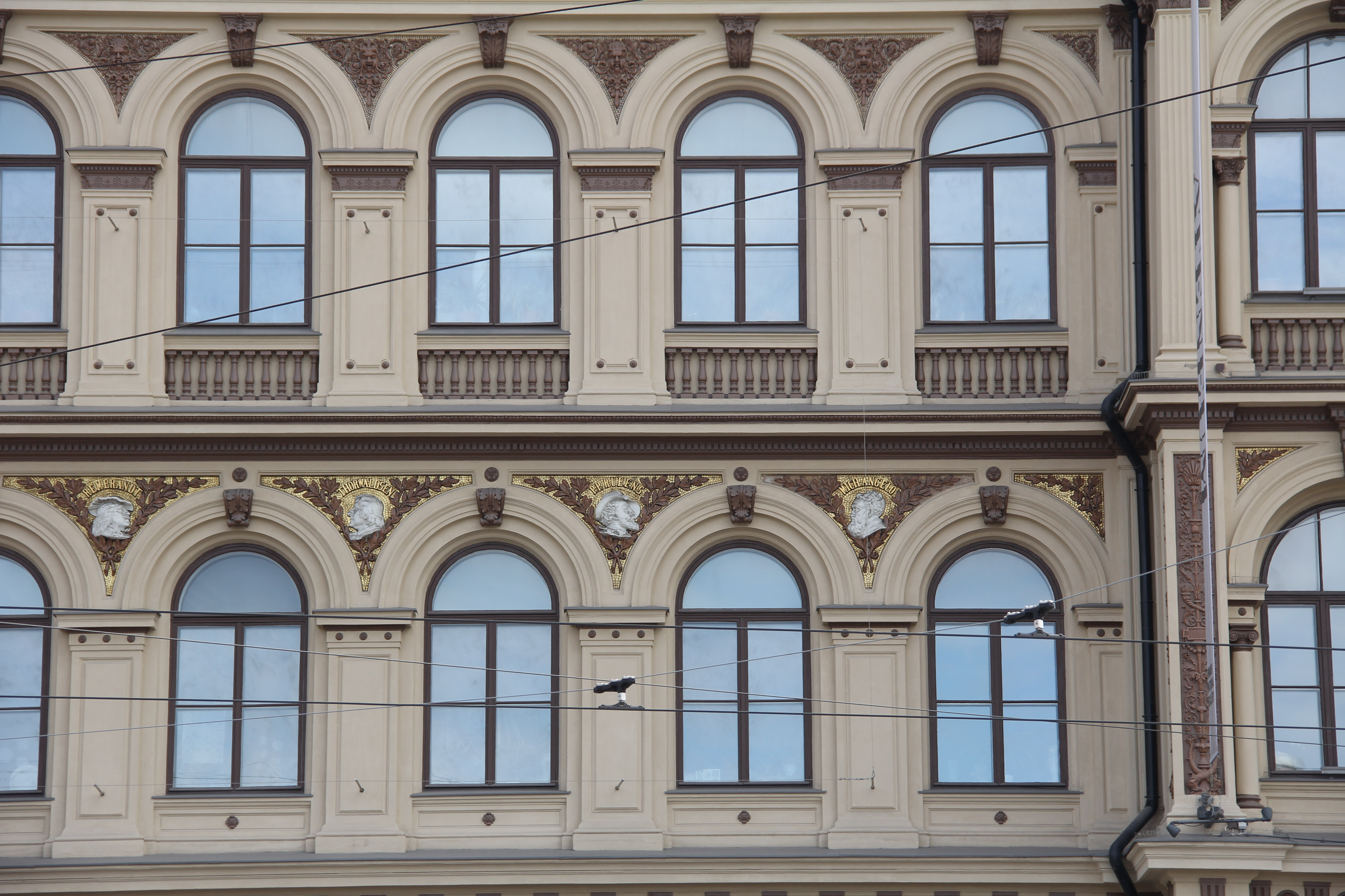 Main facade of Ateneum Art Museum, Helsinki, Finland. Museum building designed by architect Theodor Höijer, completed in 1887. Partial view. Medaillon sculptures by sculptor Ville Vallgren (1887). Additional decorative ornamental elements: decorative sculptor Magnus von Wright (1887).